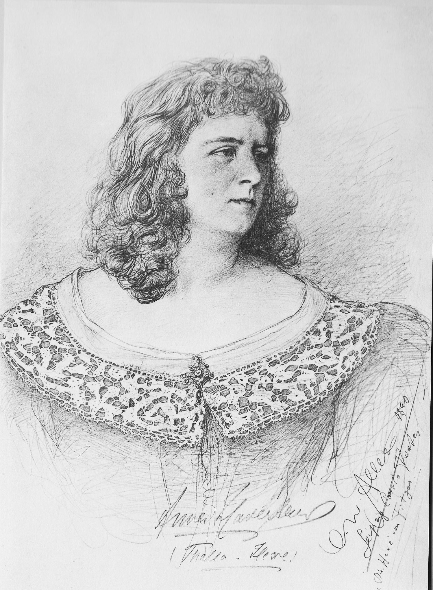 Actress Anna Haverland. Leipziger Carola Theater, Germany.